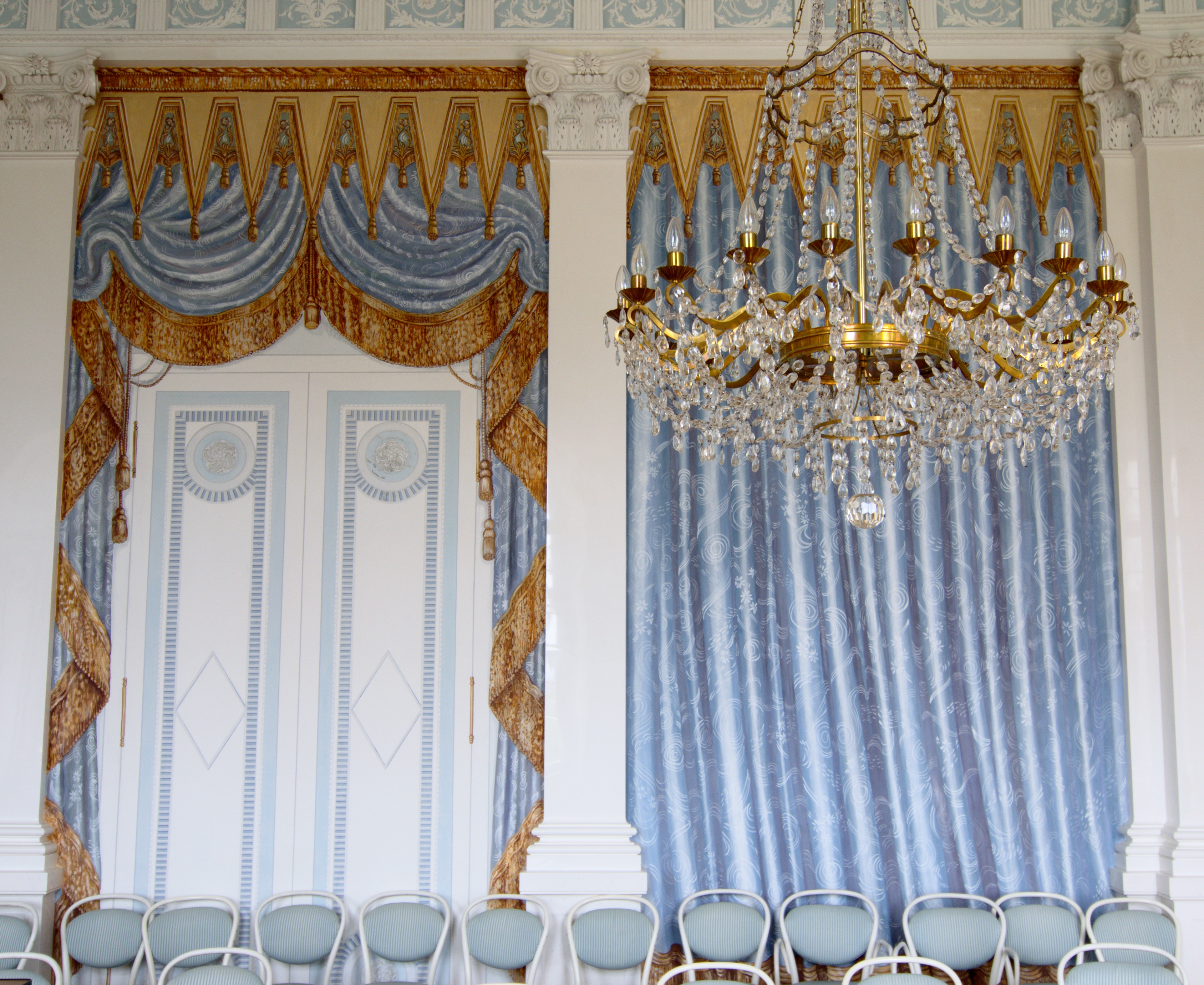 Trompe l'oeil in an interior of Schloss Hohenheim near Stuttgart